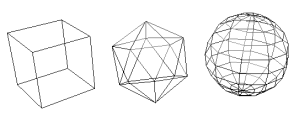 Sample image of a wireframe rendering of a cube, icosahedron, and sphere. Created in blender, touched up with the GIMP.